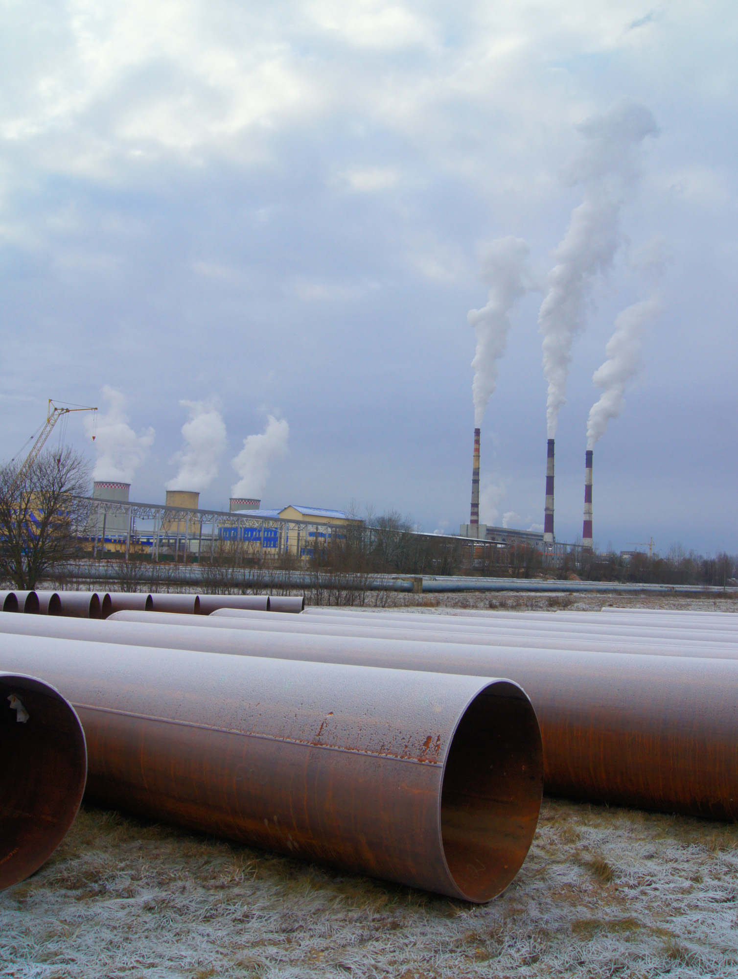 Power plant 4, Minsk